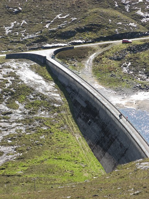 Loichel Dam The double arch dam on the Garbh-uisge has raised the level of Loch Monar above the col between Meall Innis an Loichel and Beinn Dubh an Iaruinn. Another dam, much simpler in design was required. The dam carries the road up to the Uisge Misgeach power station in Gleann Innis an Loichel.